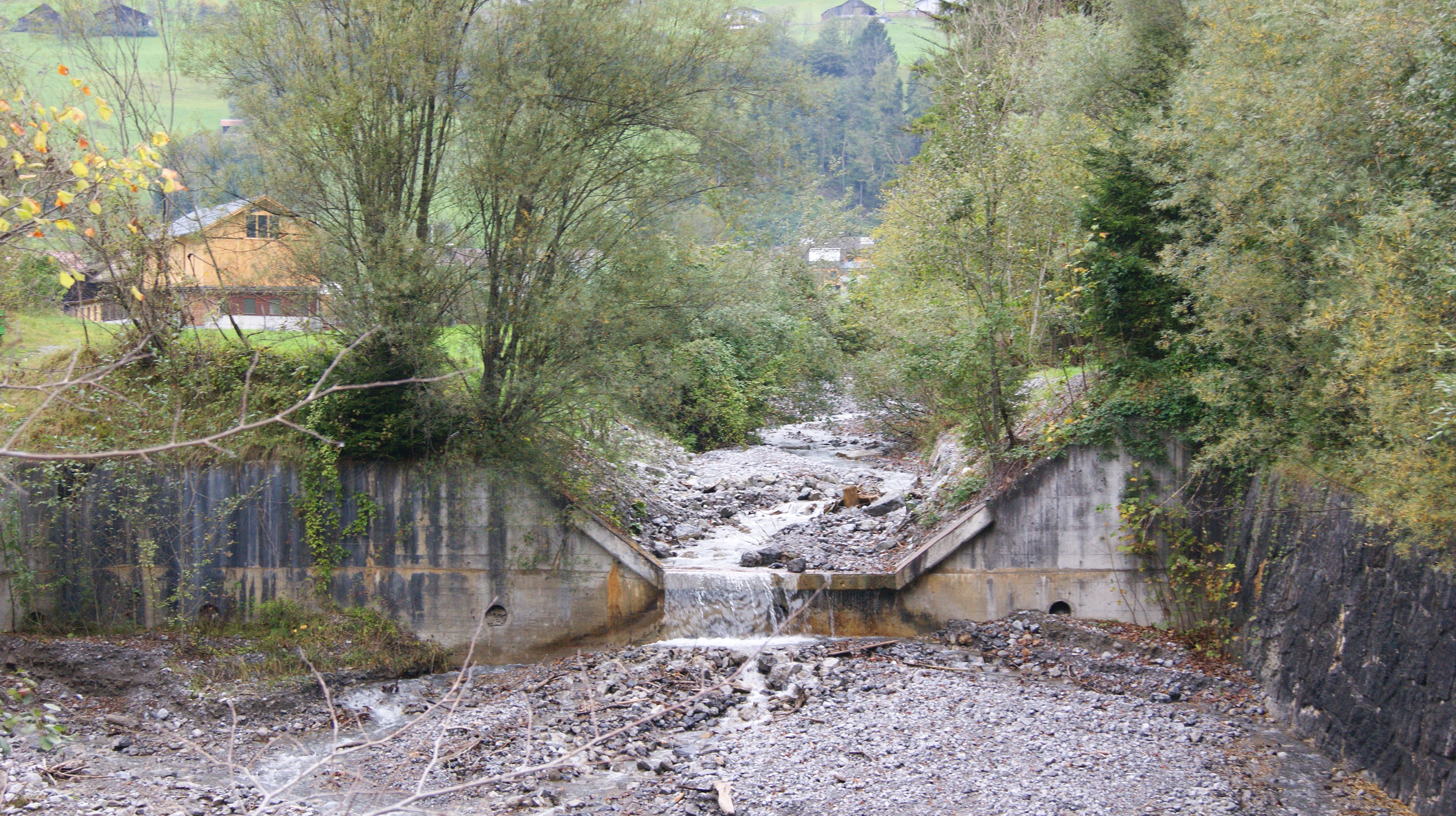 Mühlebach in Ausserbraz at river kilometer 0.40 (Mühlebach, Klostertalerstrasse L97), confluence angle Winkeltobel and Mühletobel, view from south to plot Laguz (in the north).